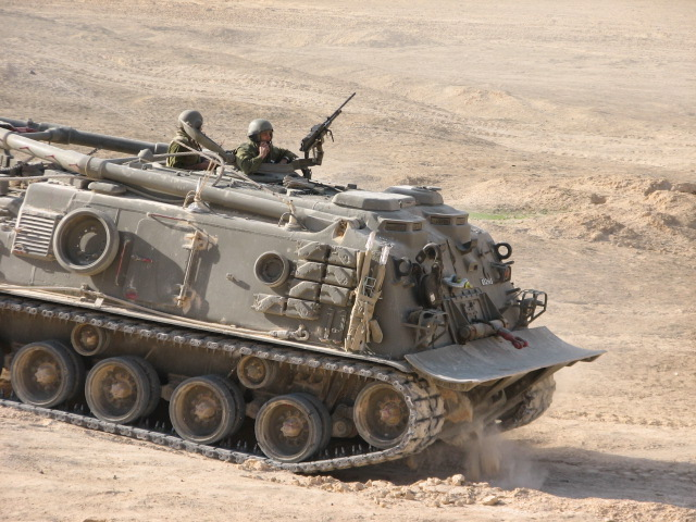 December 12, 2012 A reserves brigade in the Jordan Valley Division in a Tank Evacuation Drill. For more from the IDF